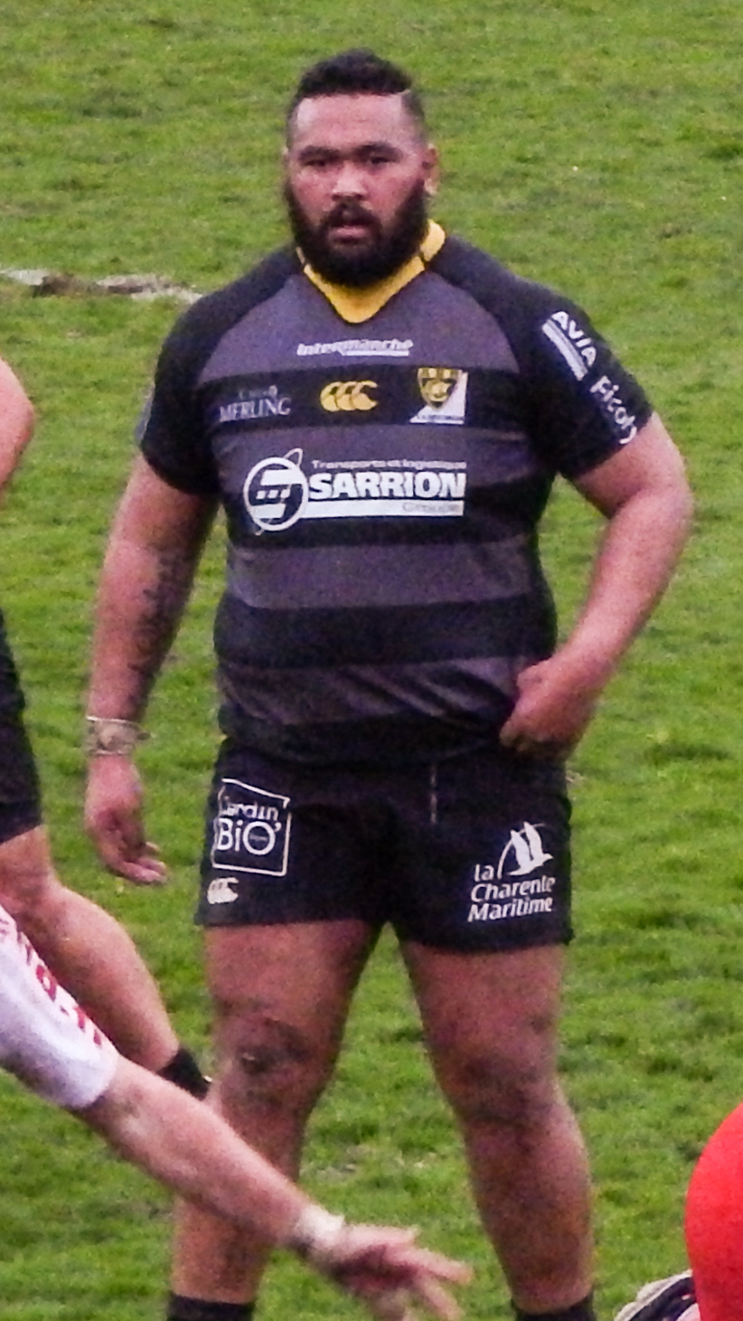 2013–14 Rugby Pro D2 season — 26 January 2014, Stade Maurice Boyau. Match between: US Dax — Atlantique stade rochelais